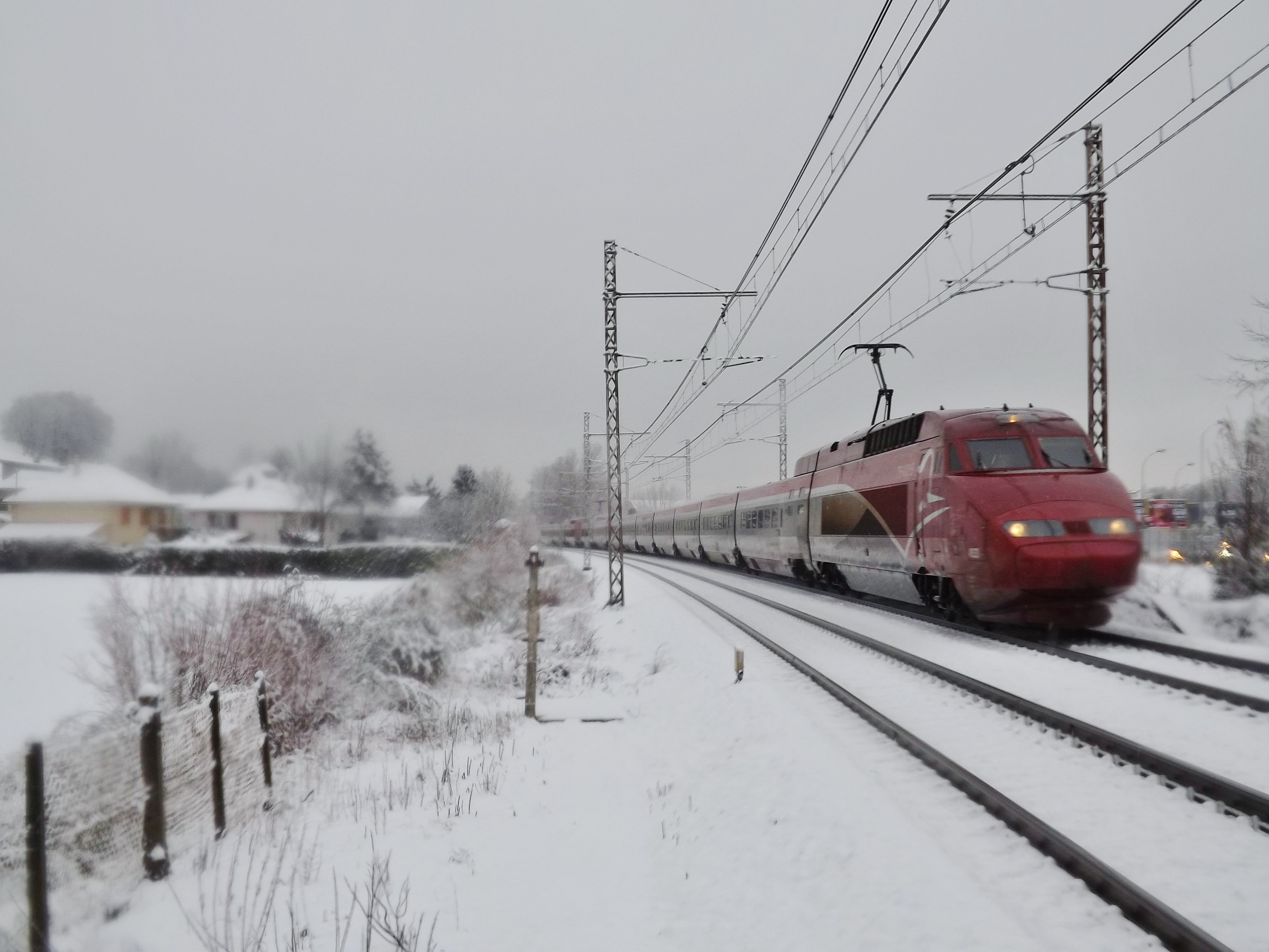 Sight of a TGV Thalys coming from Moûtiers and bound for Brussels, leaving Chambéry, in Savoie, France.